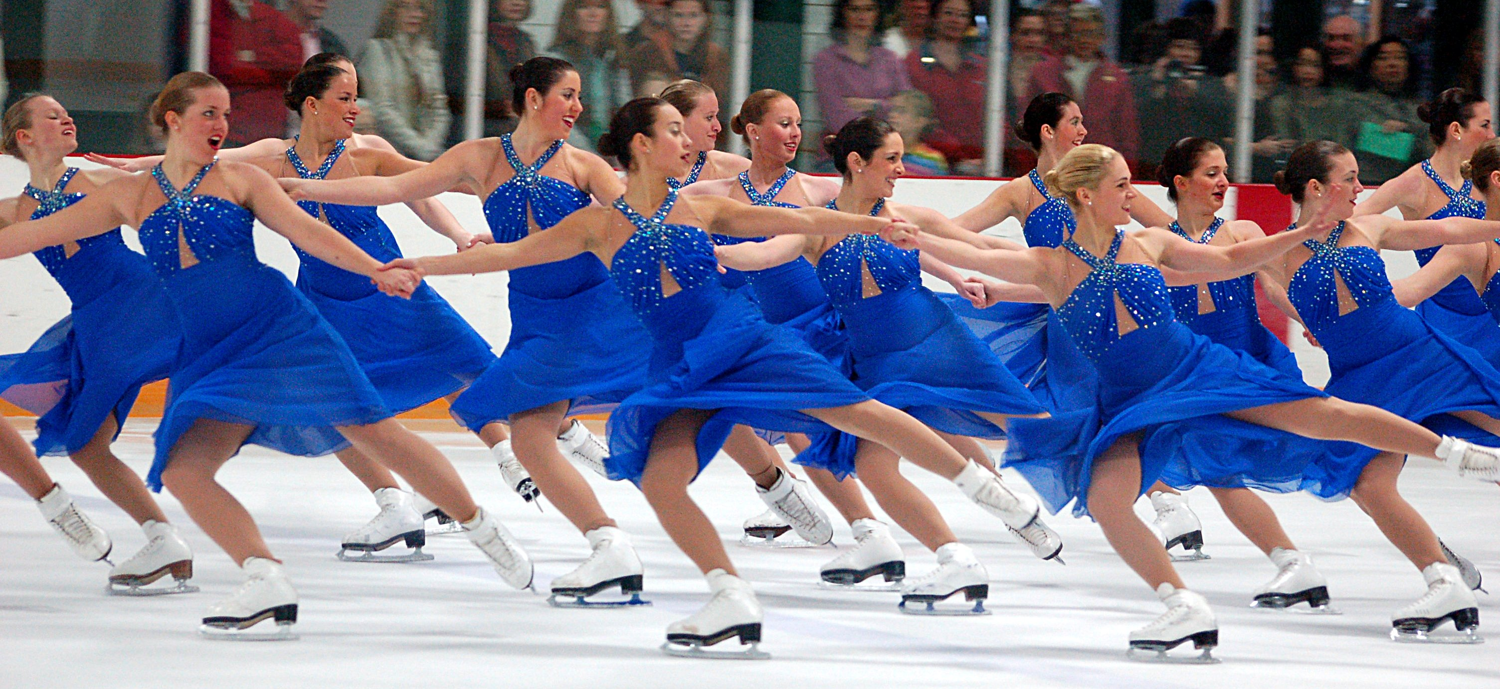 The Haydenettes in their Christmas exhibition show. Taken at the Hayden rink in Lexington, MA.